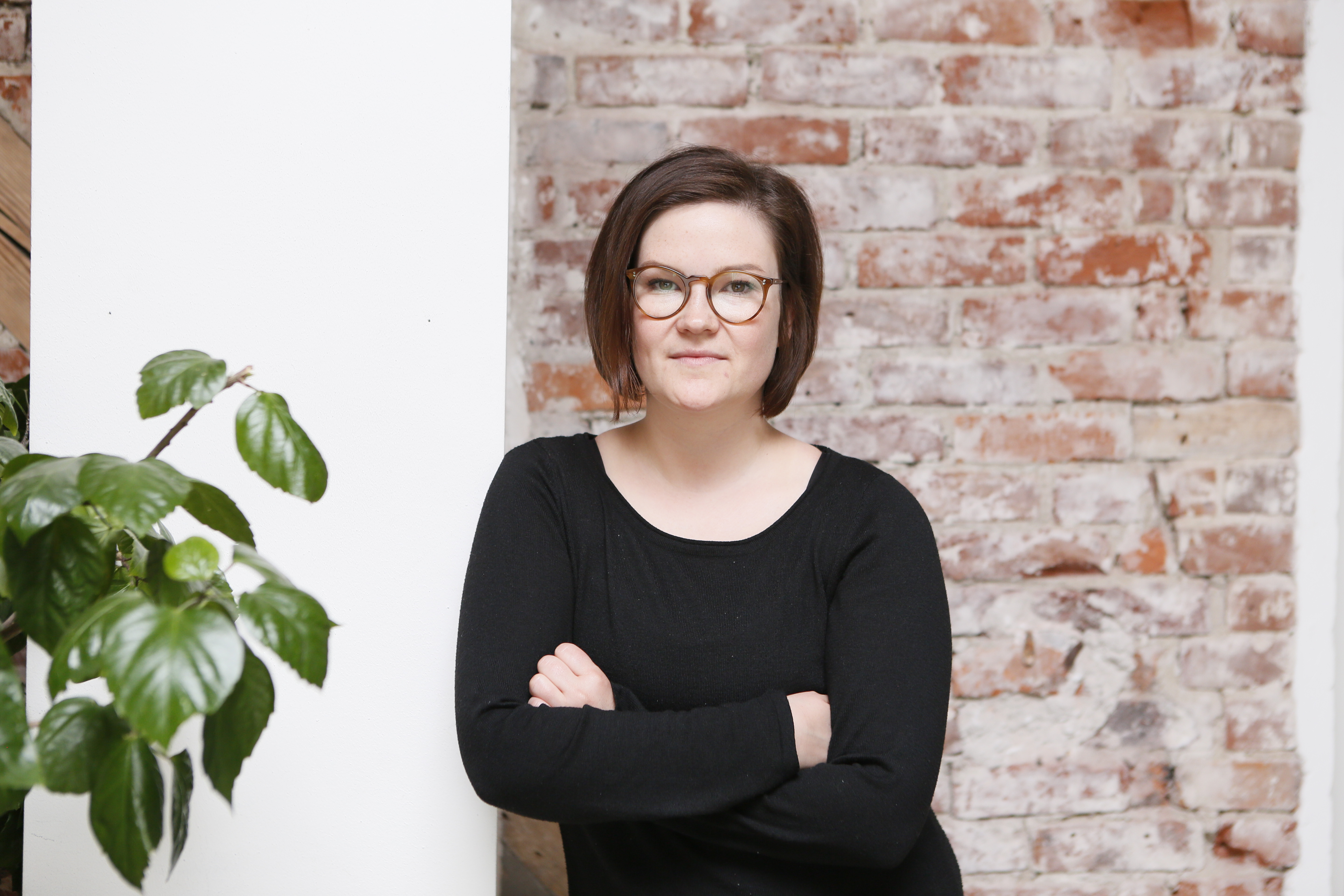 Emily Laquer